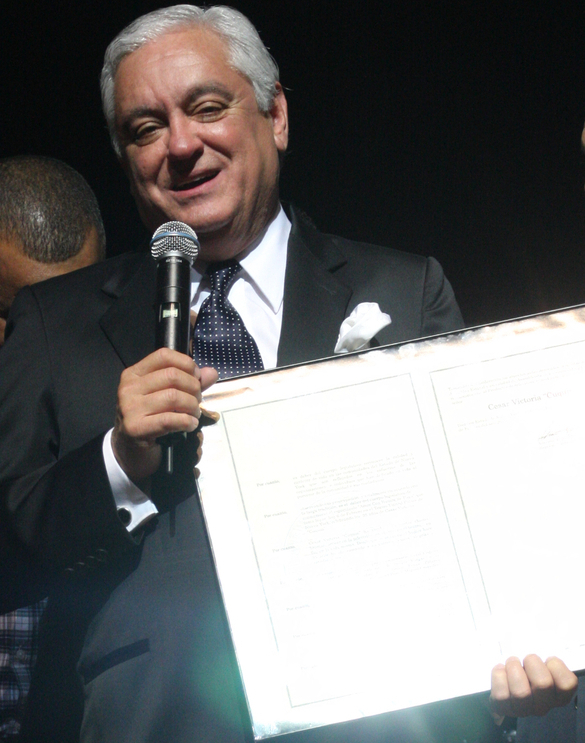 adjusted version of Image:Cuquin_Victoria.jpg